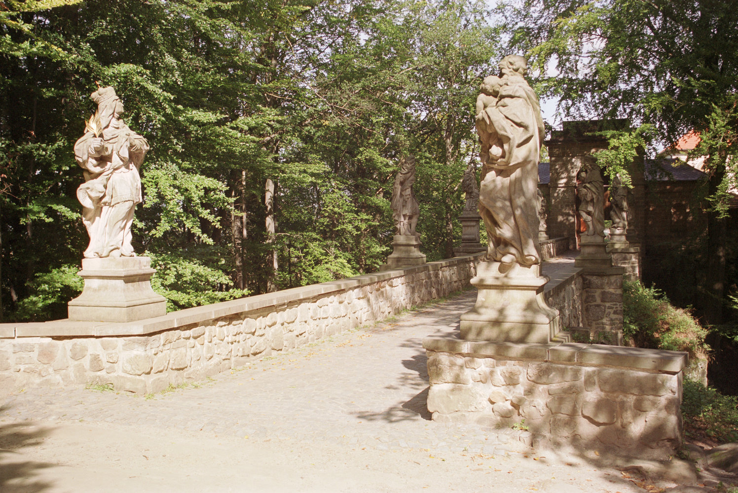 Castle Valdštejn in Czech Republic, entrance bridge with sculptures by the brothers Jeleník (1725-1735) picture taken by me in summer 2004 license: Gnu-FDL